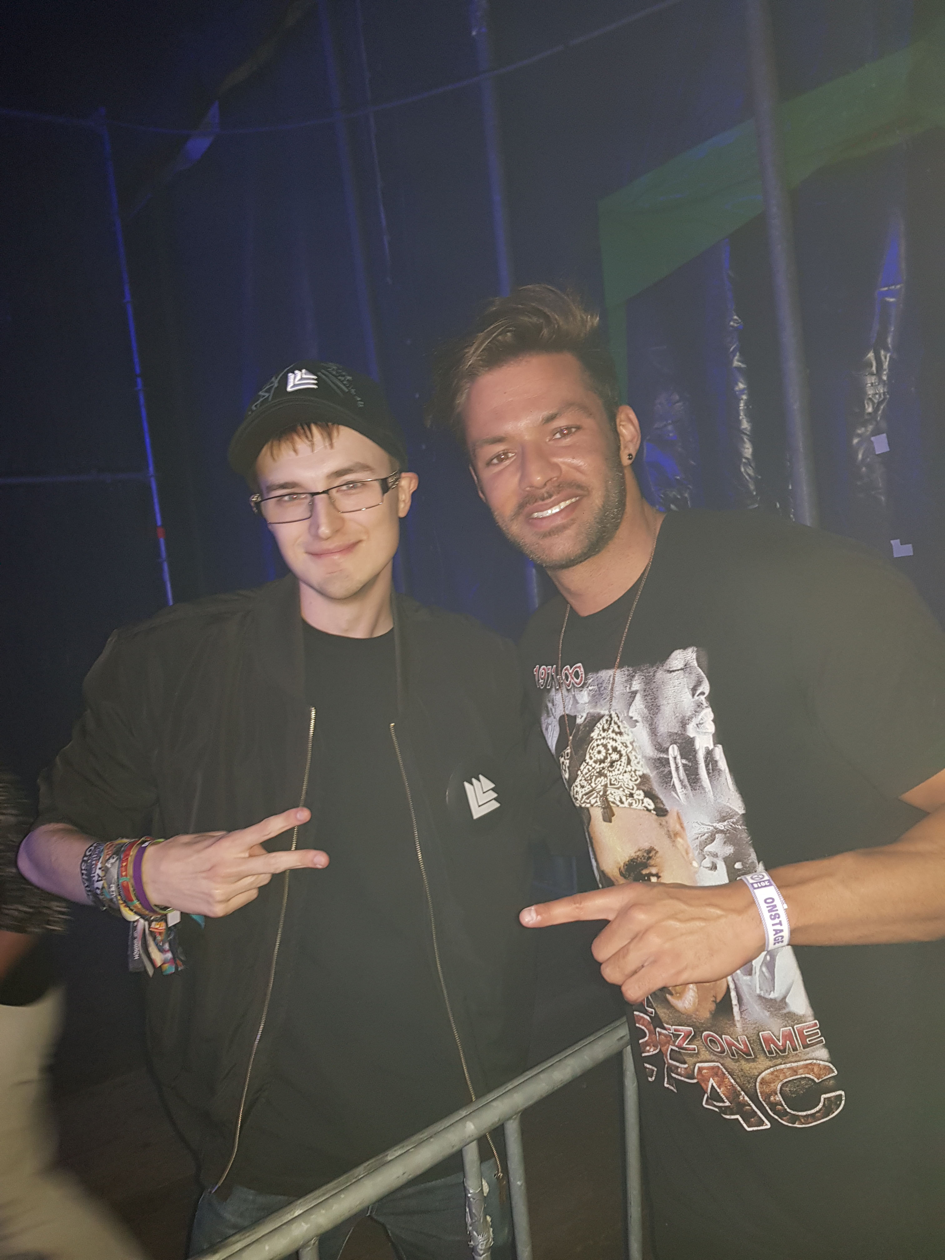 Kura @ 7th Sunday